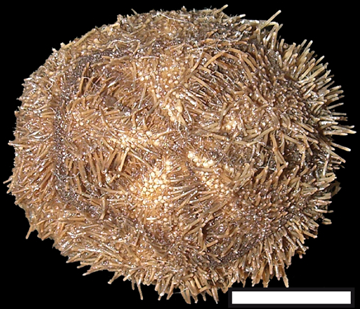 Picture of Abatus cavernosus